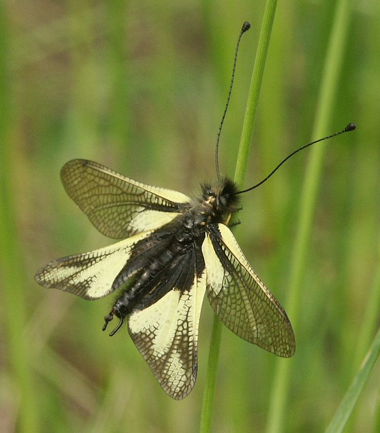 Libelloides coccajus ♂Germany - Hohenlohe